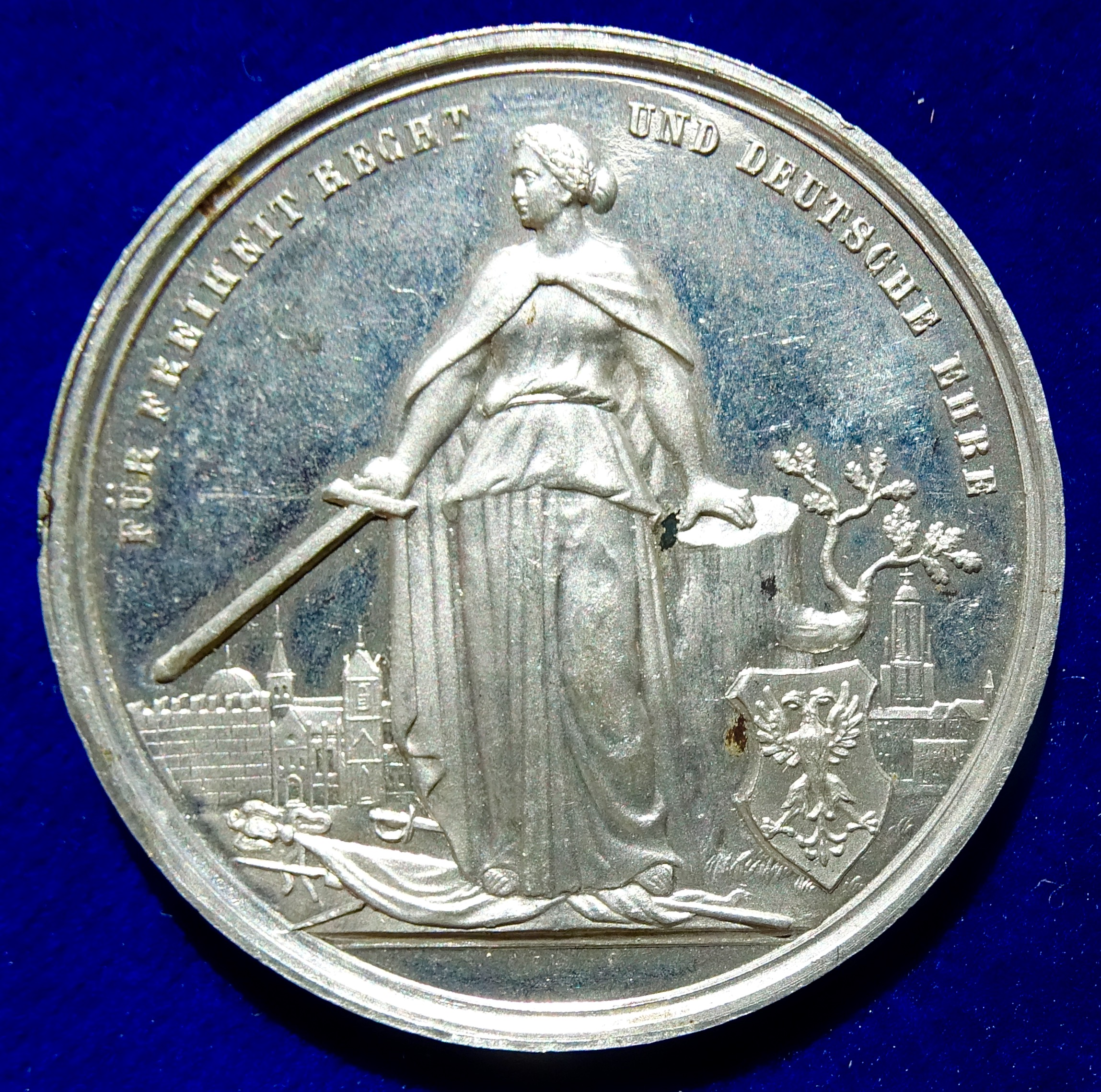 Pewter d. = 41 mm. The Siege of Strasbourg took place during the Franco-Prussian War, and resulted in the French surrender of the fortified city to the combined German forces from Baden and from Württemberg on 28 September 1870. On French arms standing Germania l. holding sword, the double headed Imperial Eagle on a shield at r. In the background a view of Strasbourg. Curved above: "FÜR FREIHEIT RECHT UND DEUTSCHE EHRE"/ 5 shields of Prussia, Bavaria, Baden, Saxony, and Württemberg around "1870". On a scroll connecting the shields: "WIR WOLLEN SEIN EIN EINIG VOLK VON BRÜDERN" (see Schiller- William Tell, Rütlischwur, a legendary oath of the Old Swiss Confederacy). Slg. Marienburg 5773. Medallists: (Carl) Drentwett, 1848 Augsburg - 1876 & Peter Condition: EXTREMELY FINE.